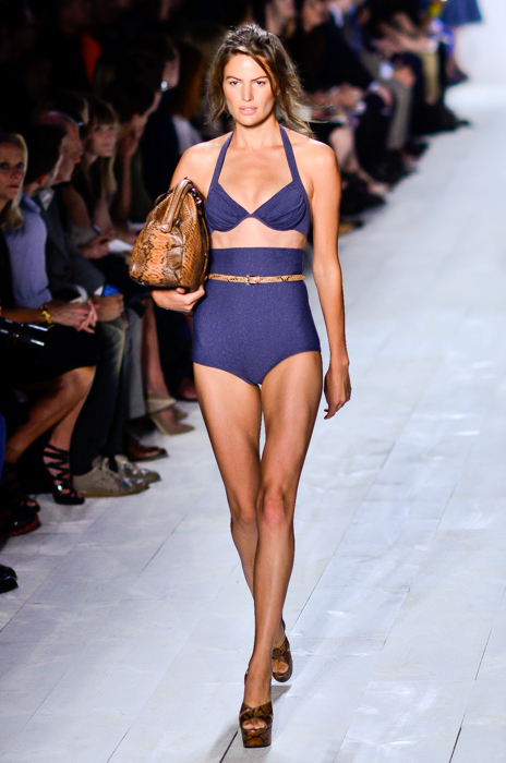 A model walks the runway at the Michael Kors Spring/Summer 2014 show at New York Fashion Week, September 2013.